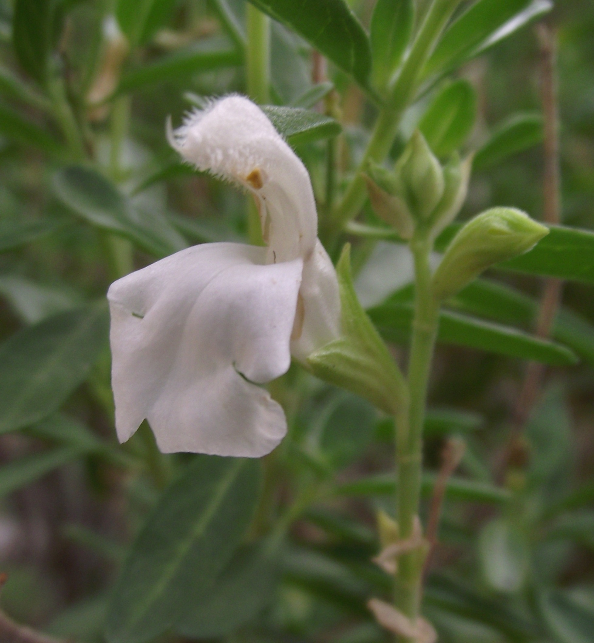 Salvia greggii 'Navajo White' at Tucson Botanical Gardens, Tucson, Arizona, USA. Identified by sign.